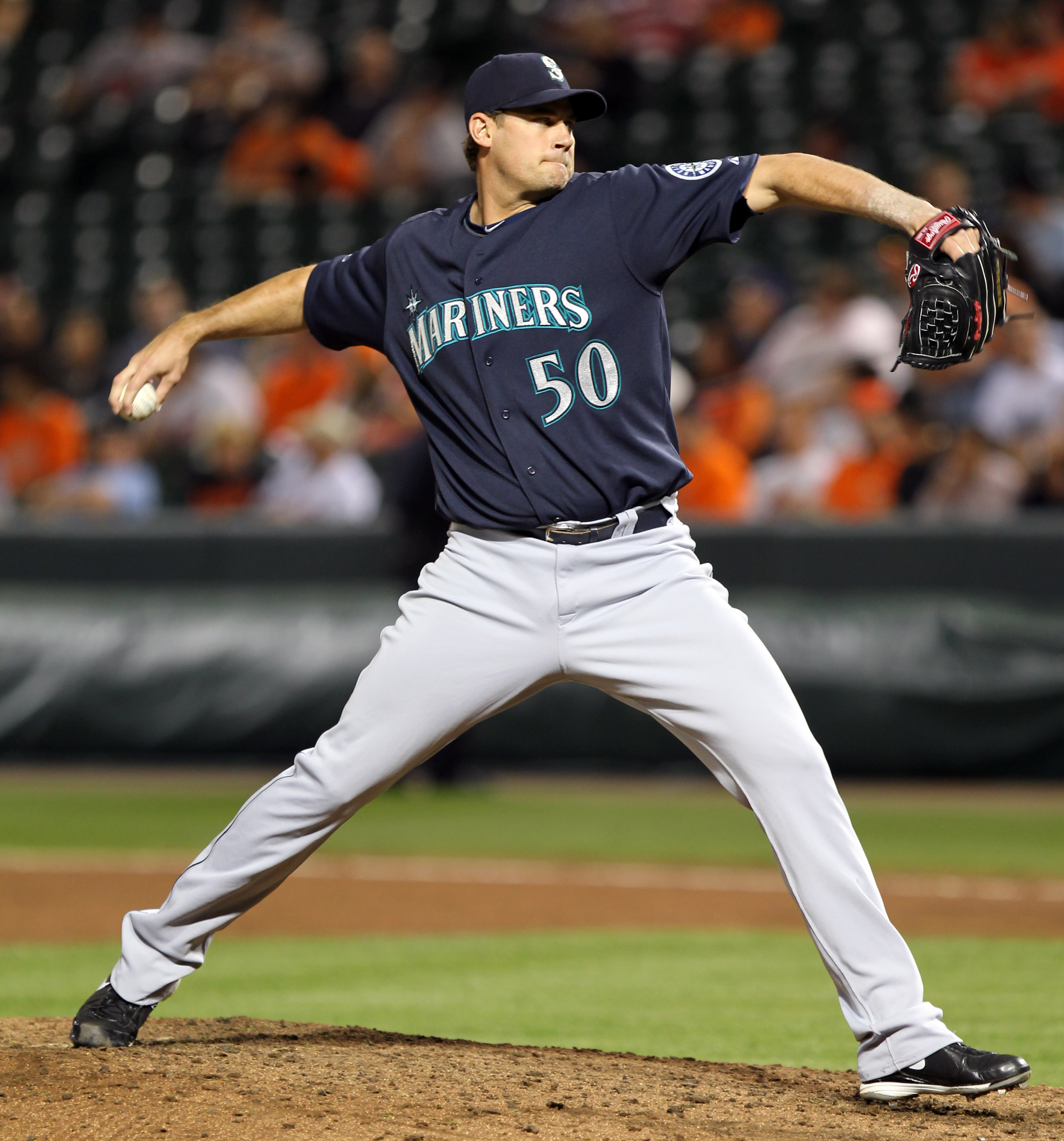 Jamey Wright